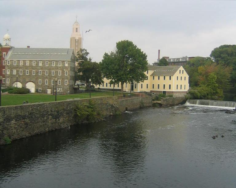 Picture of the Slater Mill, on the Blackstone River, in Pawtucket, Rhode Island.